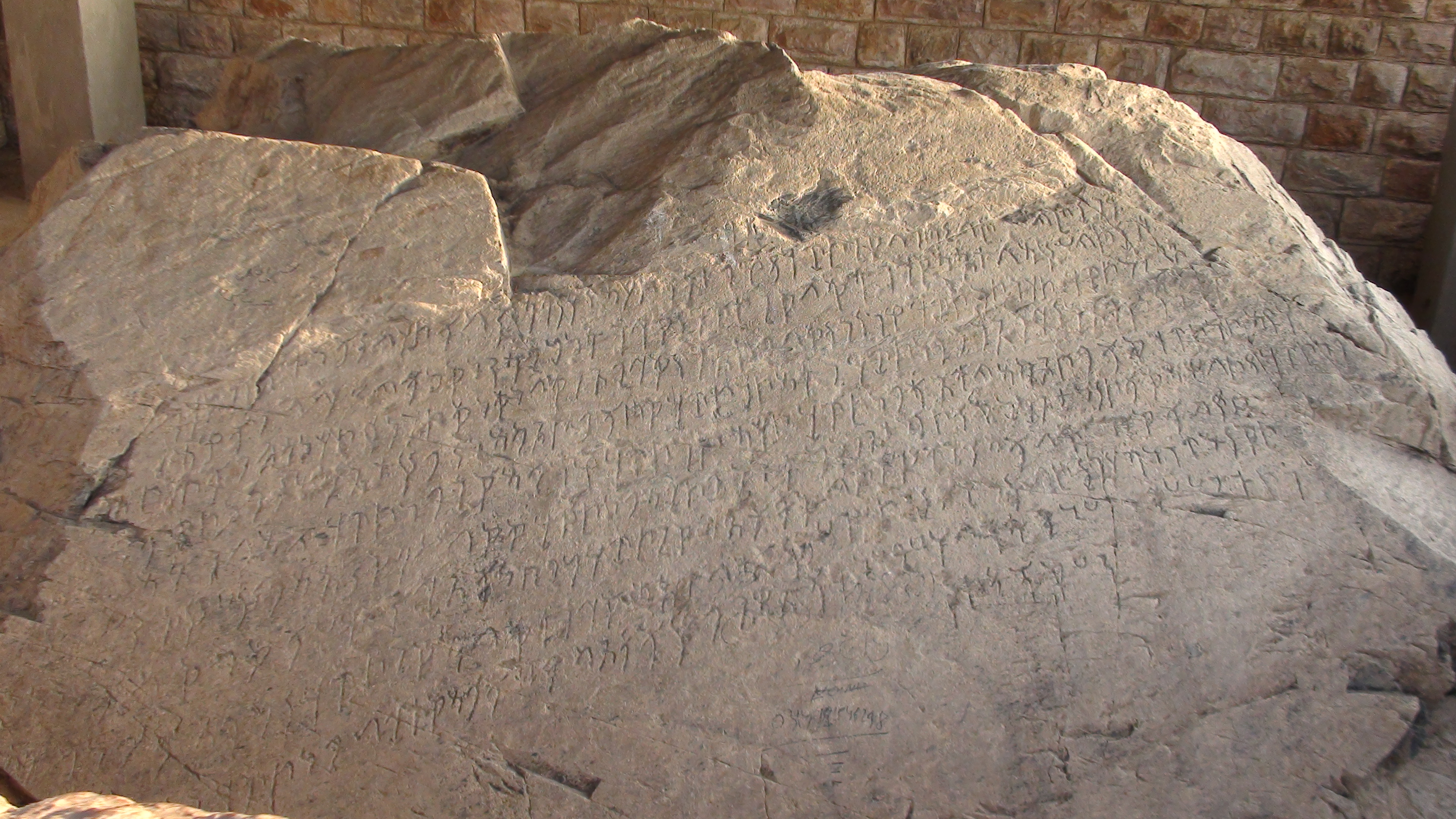 Fourteen rock edicts of Ashoka inscribed on two rocks in Shahbazgarhi This is a photo of a monument in Pakistan identified as the KPK-33